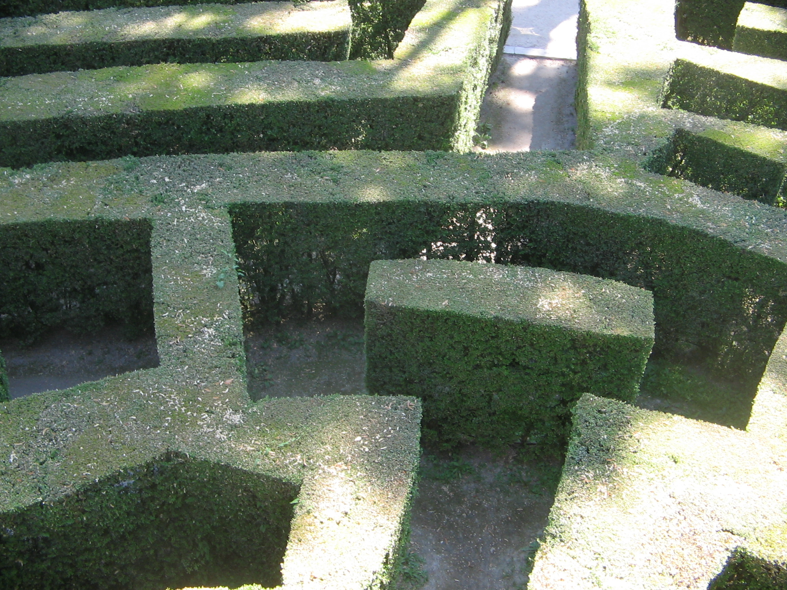 The hedge maze labyrinth of villa Pisani, Stra (Venice, Italy)